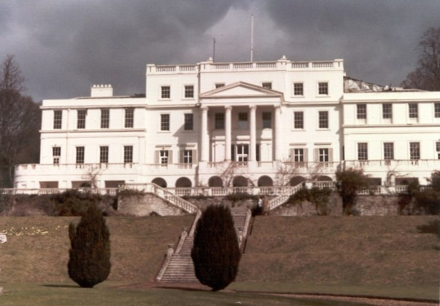 Linton Park and its history This 18th century mansion was built on the site of the old Linton Place occupied by the Mayney family of Linton and Biddenden since the 16th century. It commands a magnificent view across the Weald to the south and was described as being "like the Citadel of Kent - the whole County its garden" 893635. The Mayneys, whose effigies and memorials are in St Nicholas' church 901389, were generous benefactors - they endowed the five neat almshouses near the church and the John Mayne School now in Biddenden . However, the family fortunes were severely depleted by the Civil War when Sir John Mayney (1620-76) of Linton Place staked the family wealth and his life in support of King Charles I. He soon found his estate and home at Linton Place plundered by the Roundheads. An experienced soldier, he led a brigade at the battle of Marston Moor and fought in the campaigns in Wales and the West Country 1642-46. In 1648 he commanded the Royalists in their gallant defence of Maidstone when heavily outnumbered. He was shot in the thigh near Pontefract 948789, cut from mouth to ear at Daventry, and left for dead at Maidstone: yet he survived. But, after the restoration of the monarchy, his loyalty was left unrewarded and he died in poverty, his family dispossessed of their properties. Full story at For other branches of the family nearby see 915213 and 915199. The present building (picture) is used for private commercial purposes.